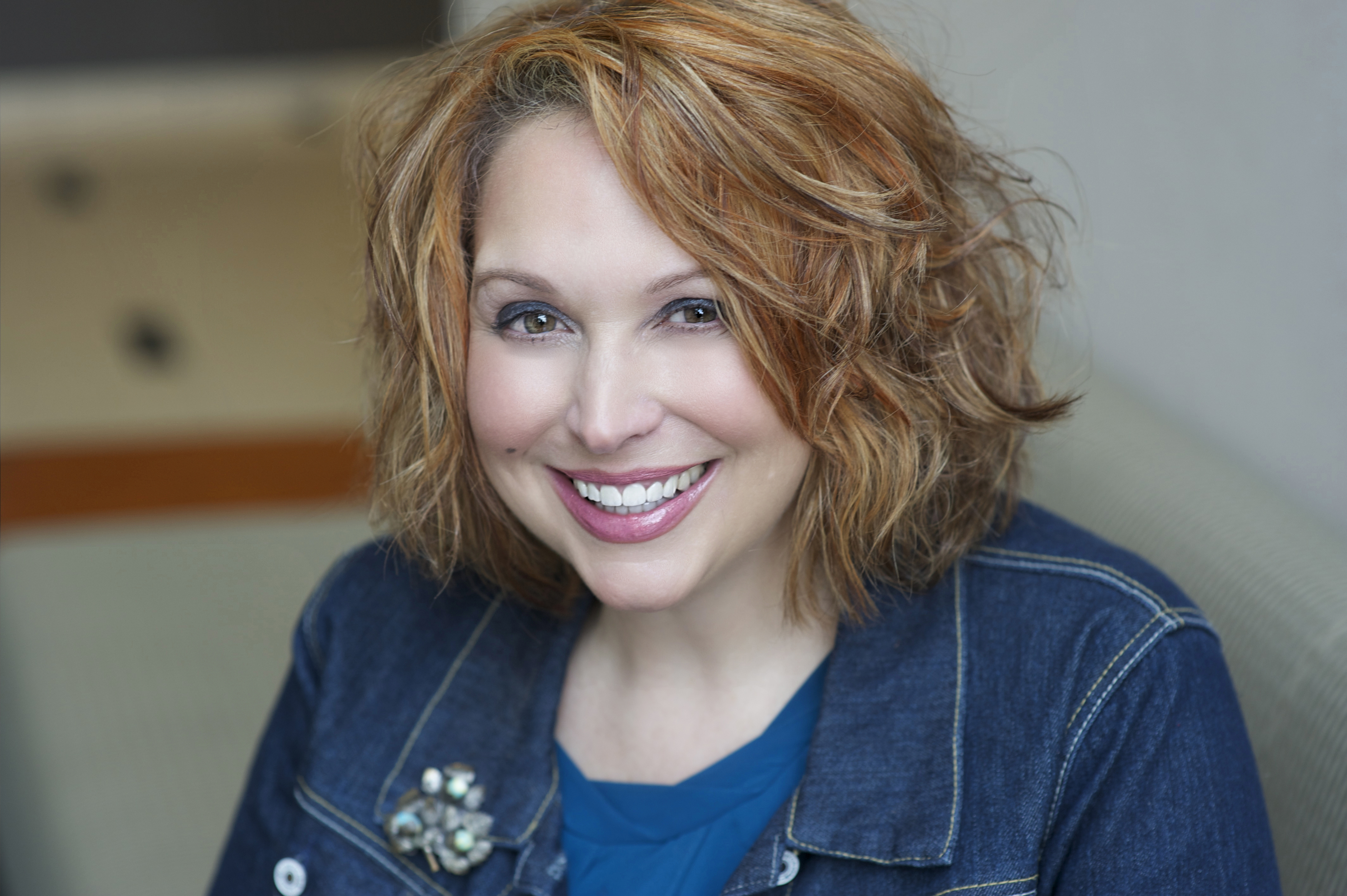 Photo of Kim Carson Author/Radio/TV/Internet Personality